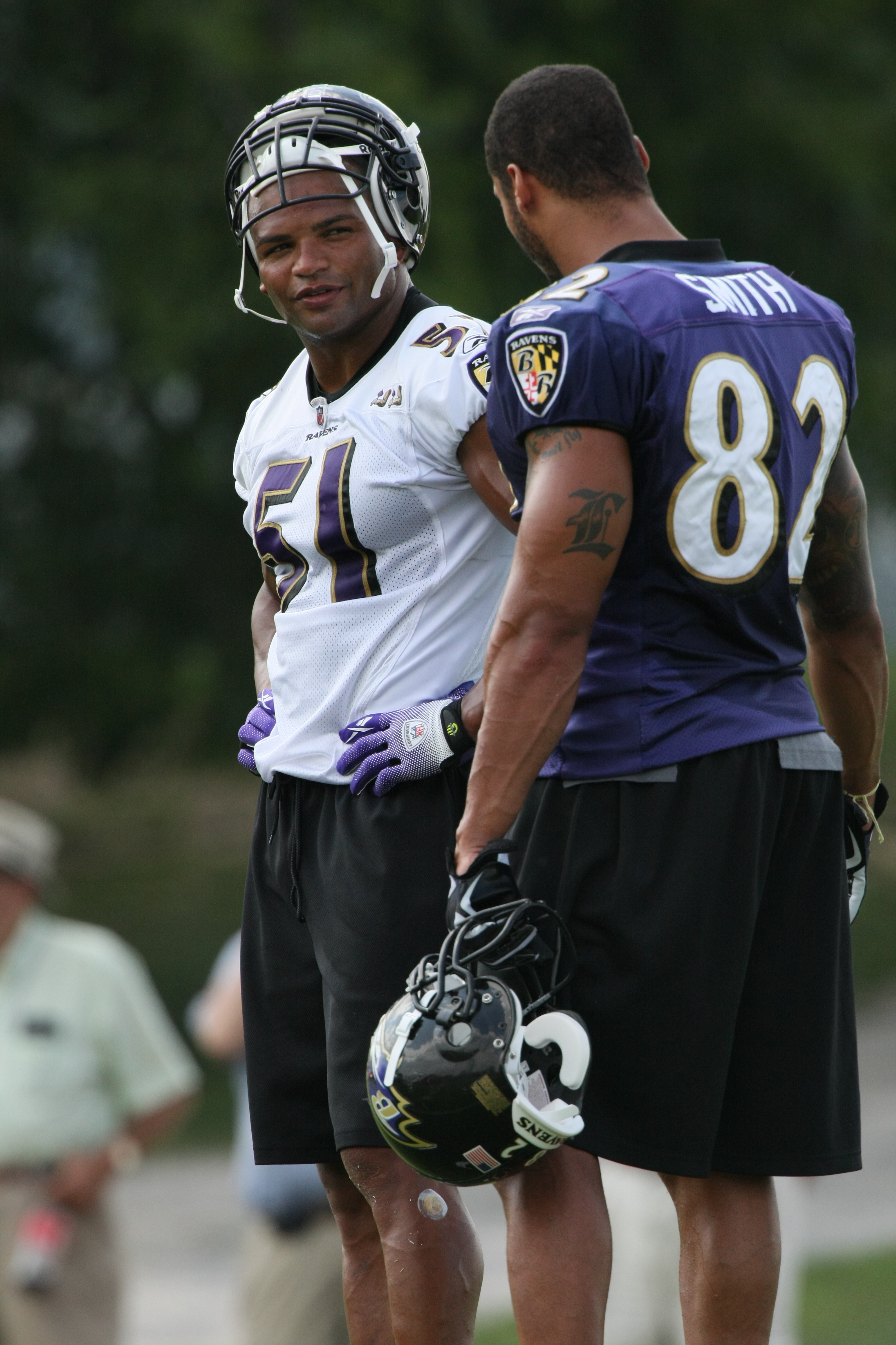 Baltimore Ravens Training Camp August 20, 2009